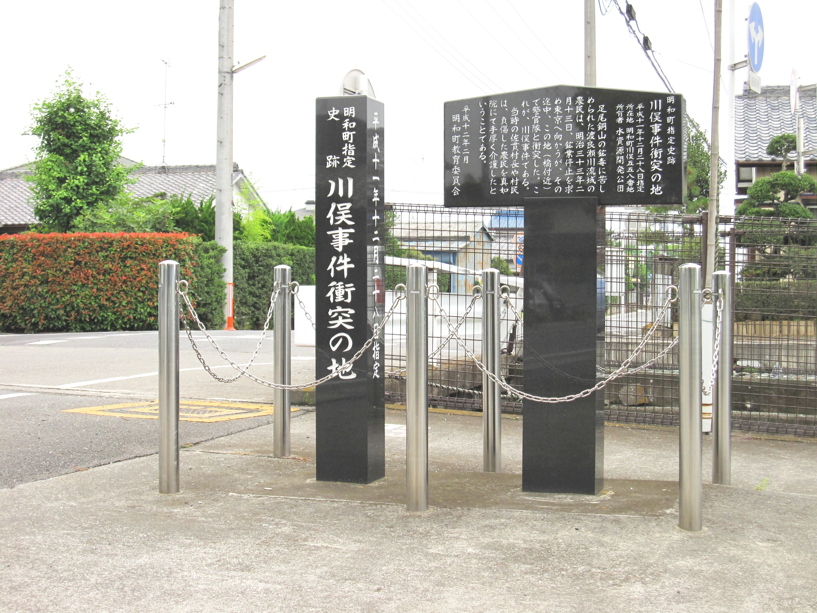 1900 February 13, Ashio mineral poison about the incident, the criminal farmers clash with police during the go petition the government for Japan Meiwa-town, Gunma prefecture, Japan